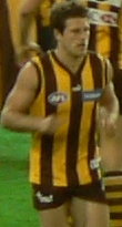 Campbell Brown playing for the Hawthorn Hawks